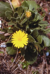 According to IUCN/SSC specialists this is one of the most endangered species of island floras in the Mediterranean area.